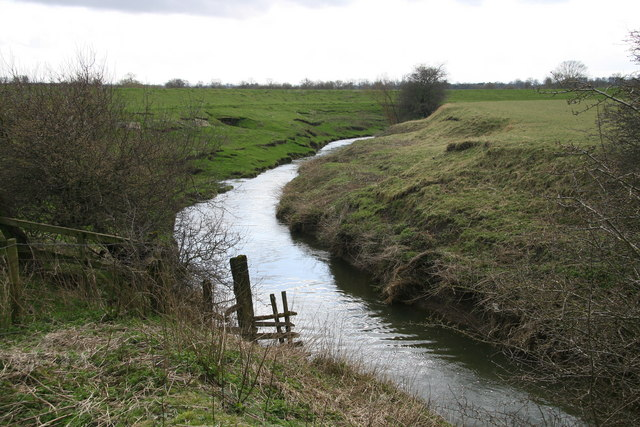 River Wiske Meandering lower reaches of the River Wiske close to its confluence with the River Swale.